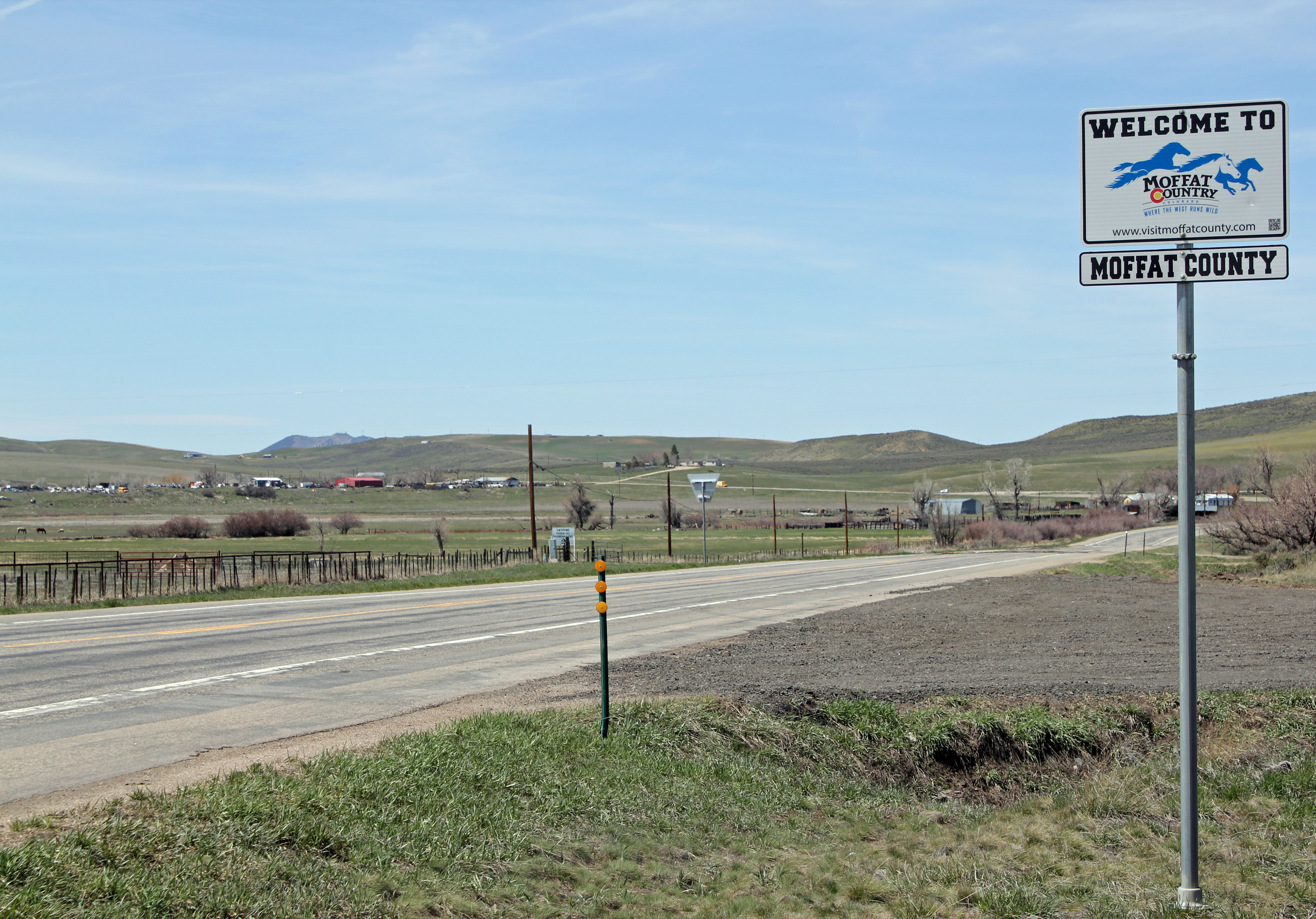 Entering Moffat County, Colorado from the east on U.S. Route 40.